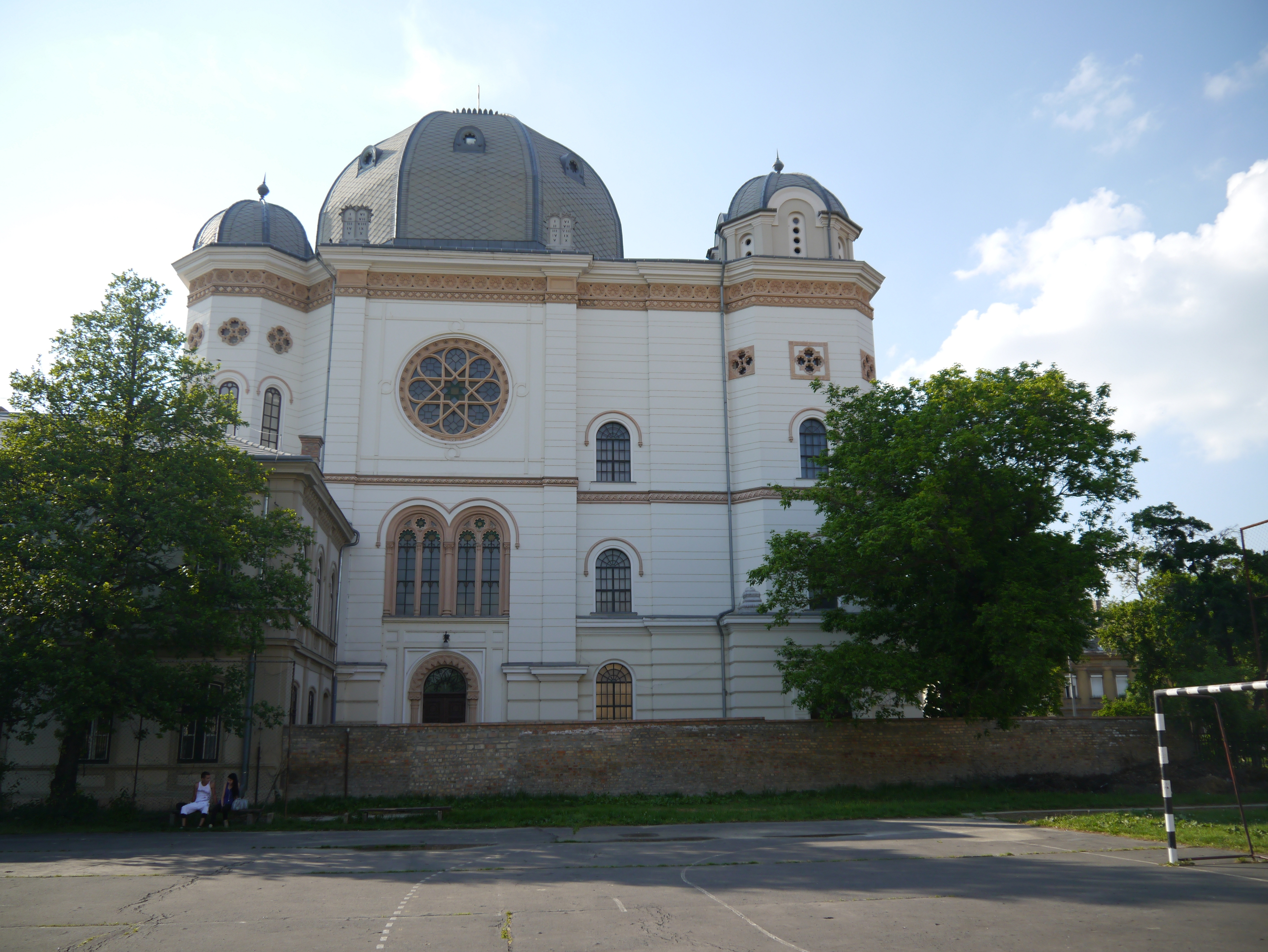 Synagogue, Györ, Western Hungary